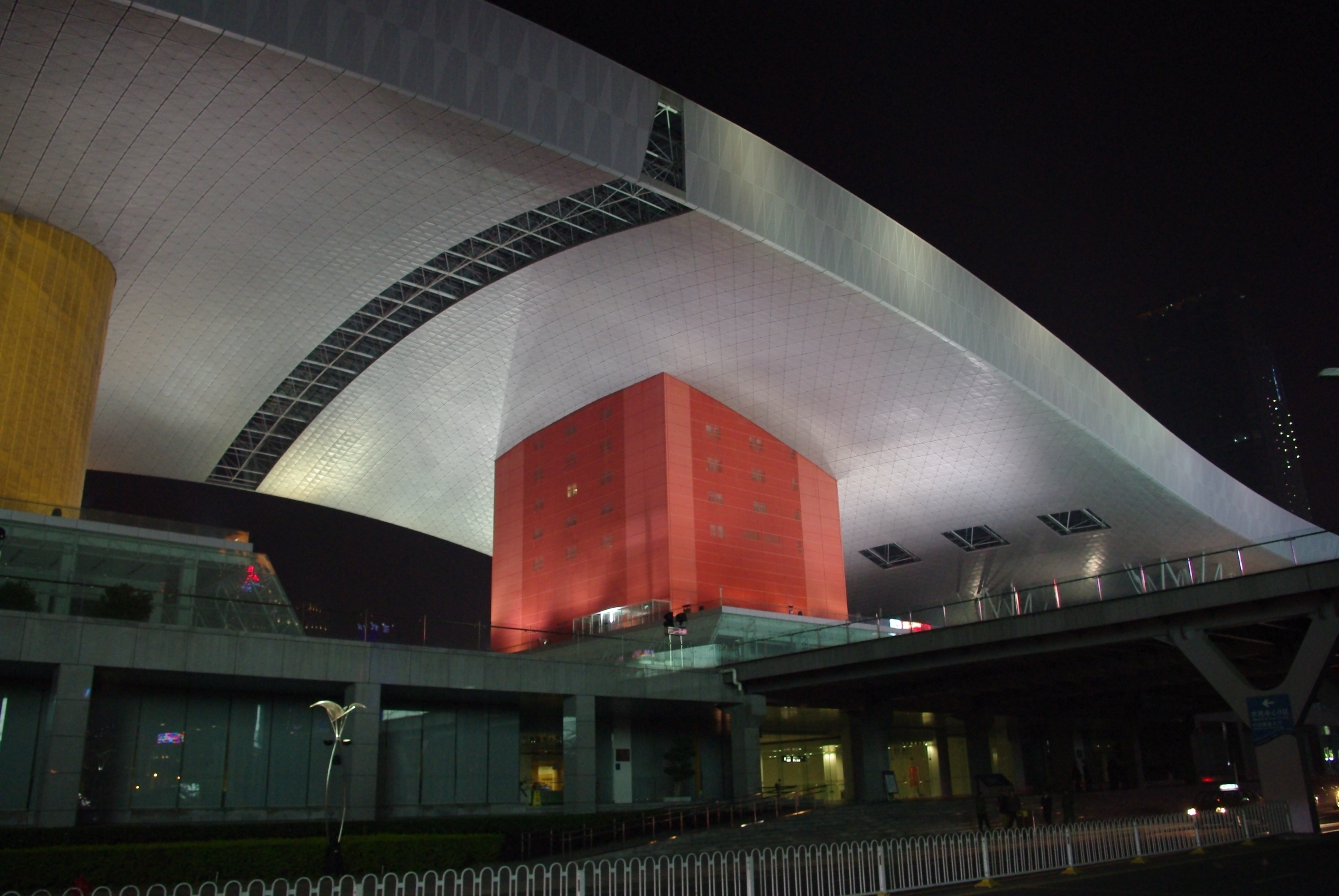 Shenzhen civic centre